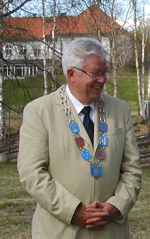 Mayor of Skellefteå with livery collar.